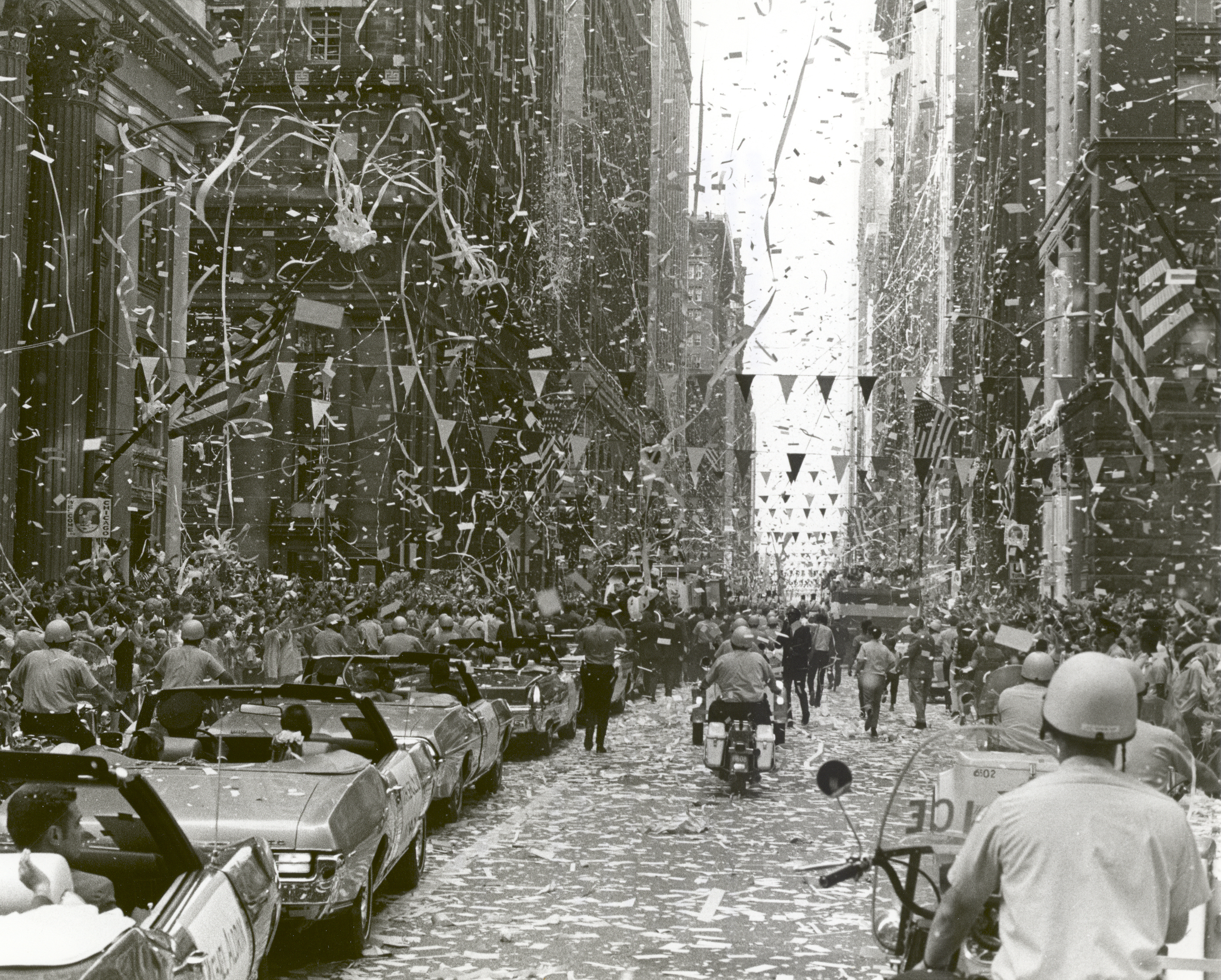 The City of Chicago welcomes the three Apollo 11 astronauts, Neil A. Armstrong, Michael Collins, and Buzz Aldrin, Jr. Image # : 69-H-1426 Date: August 13, 1969